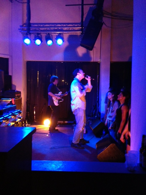 Future Islands at Metro Gallery in Baltimore, MD in 2013